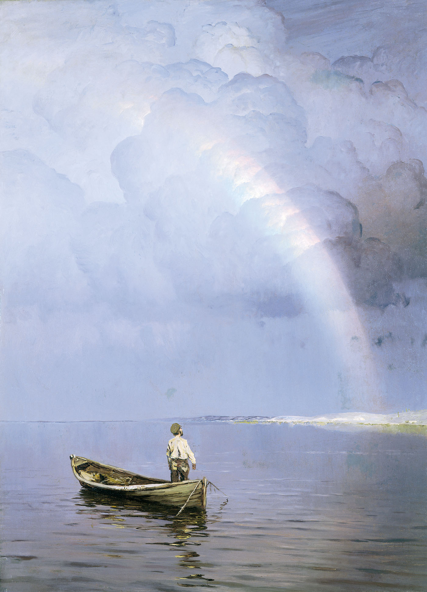 The Rainbow. 1892. Oil on canvas. Novocherkassk Museum of History of the Don Cossacks, Russian Federation